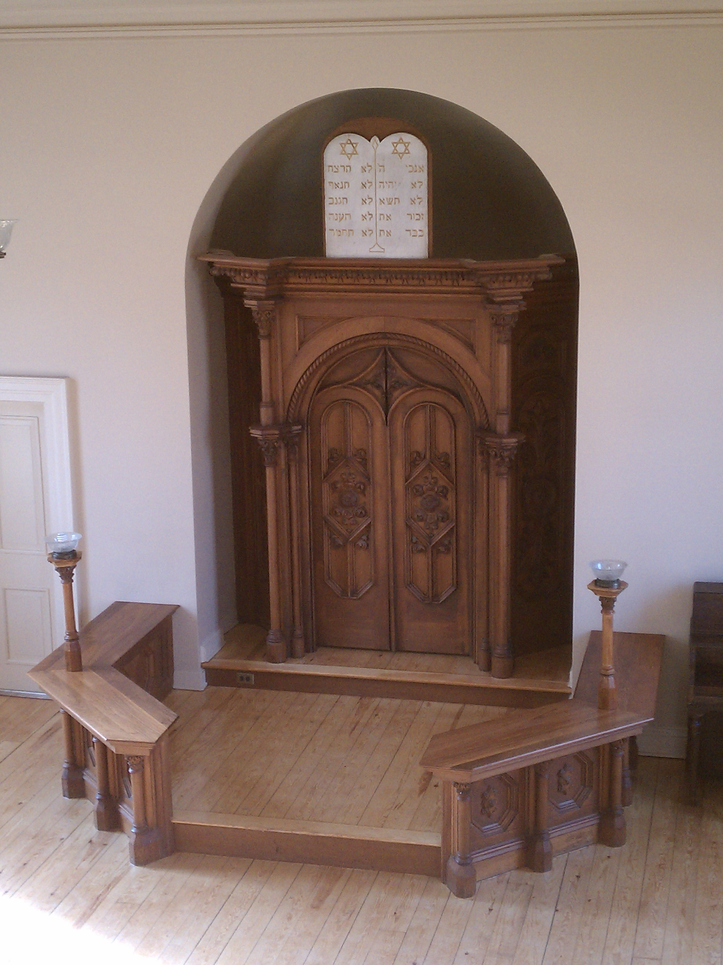 This is the Ark from the Gates of Heaven Synagogue in Madison, WI as viewed from the right side of the balcony.